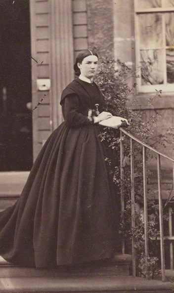 Portrait photograph of Harriet Mordaunt, c.1865